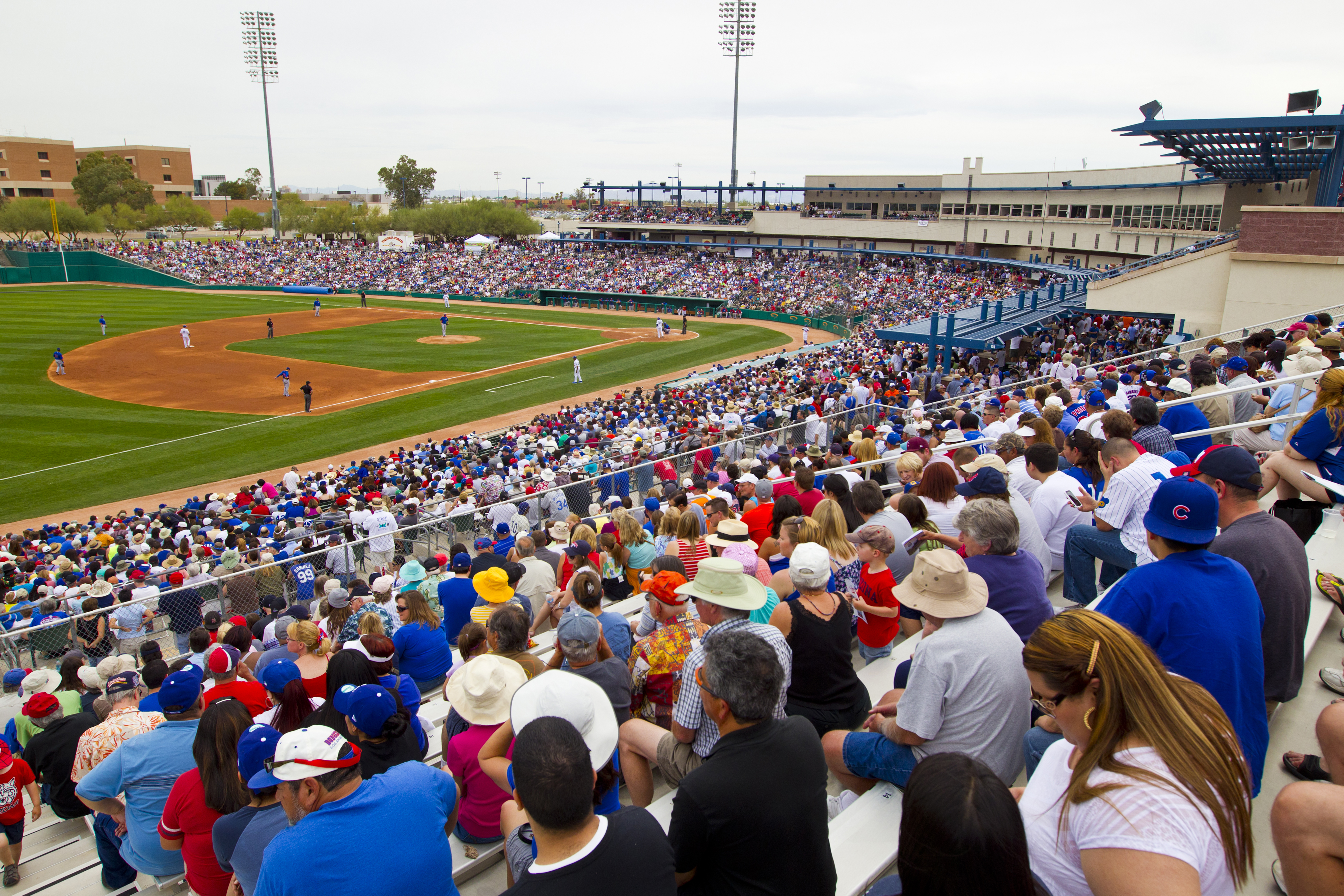 Kino Veterans Memorial Stadium seen during a MLB Spring Training game.